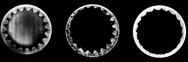 Photo of New Quill (left) and two Worn Quills from N270A (centre and right)